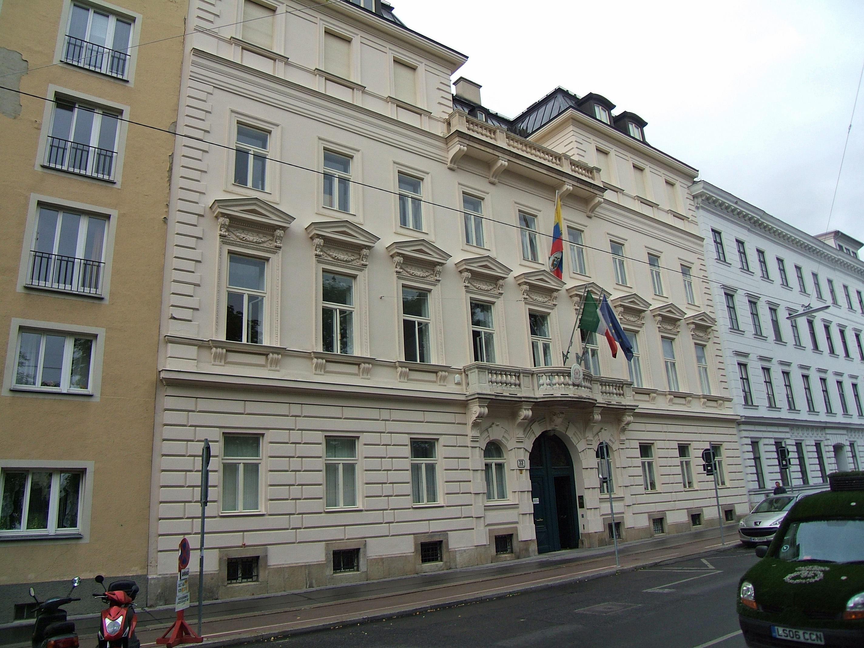 Palais Erlanger in Vienna 4th district Argentinierstraße 33